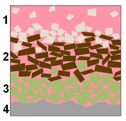 Solidiﬁcation Fronts of Igneous differentiation